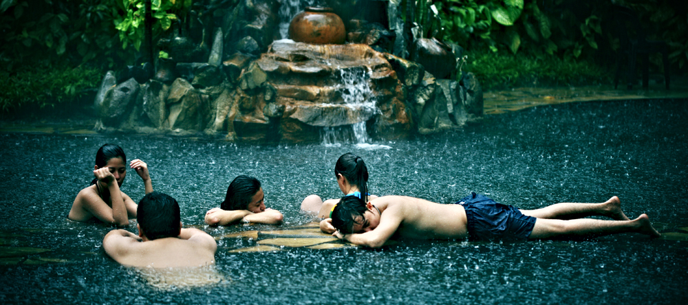 Mambukal resort at Murcia, slopes of Kanla-on Volcano, Negros Occ. Philippines